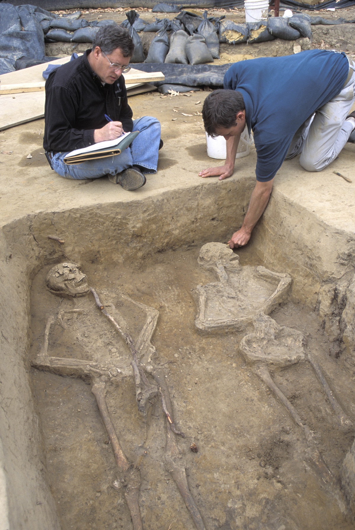 Forensic anthropologist Douglas Owsley (left) and APVA Preservation Virginia/ Historic Jamestowne archaeologist (Danny Schmidt) discussing the double burial of two European males. James Fort site, 1607.